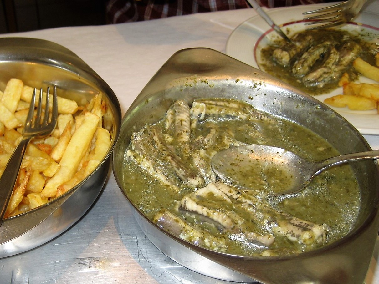 Eel stew with green herbs, Cuisine of Belgium